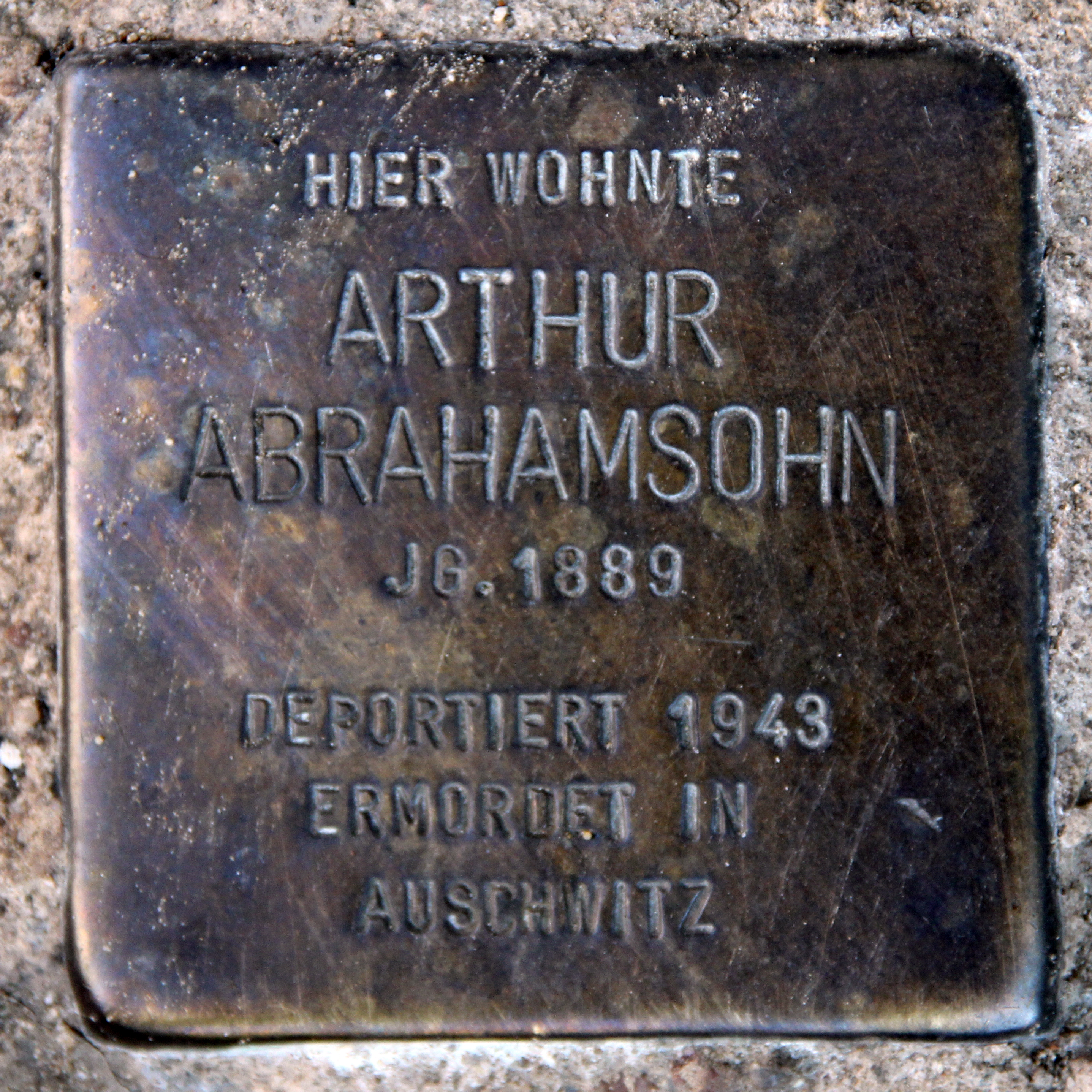 "Stolperstein" (stumbling block), Arthur Abrahamsohn, Zehdenicker Straße 2, Berlin-Prenzlauer Berg, Germany